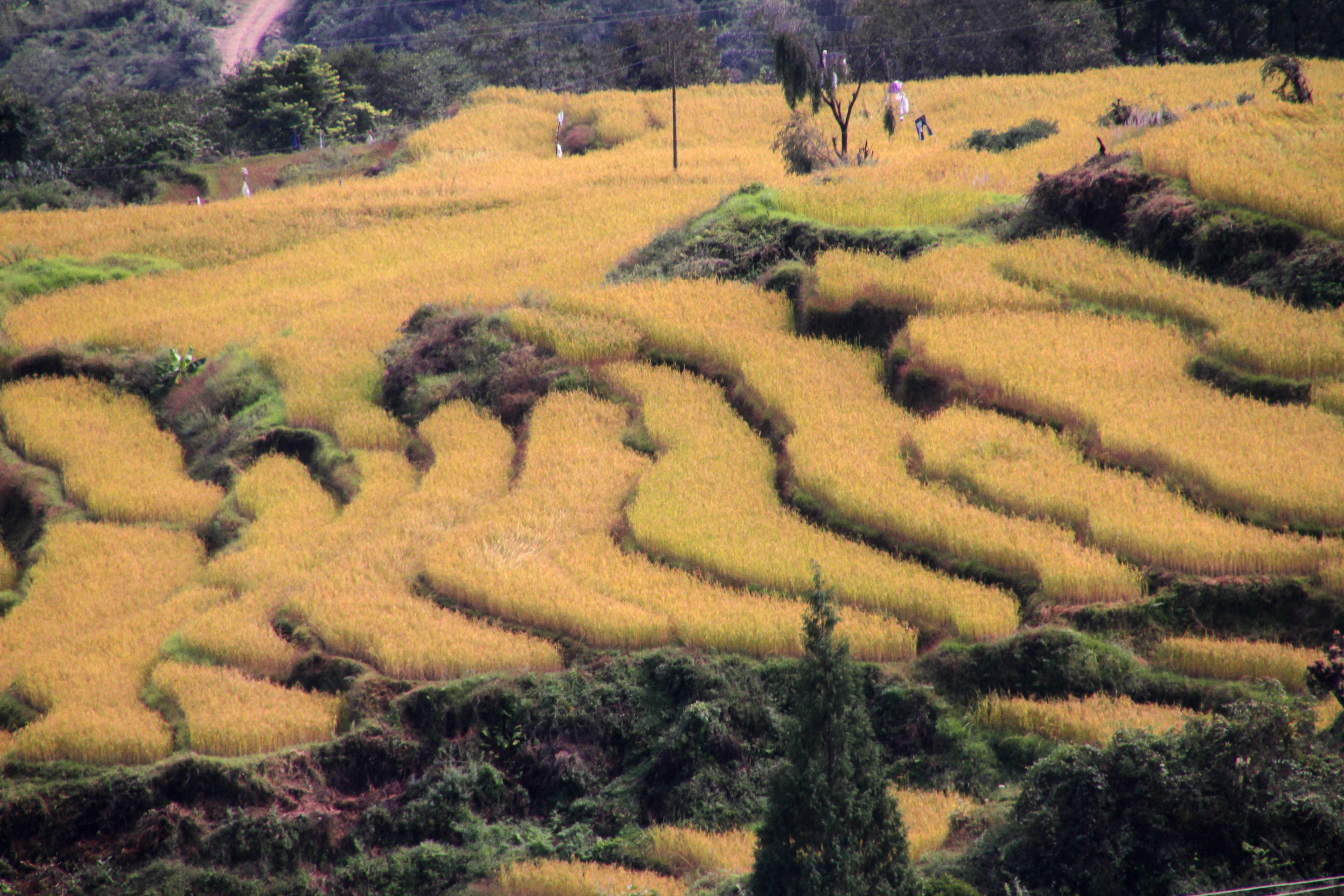 Thimphu District